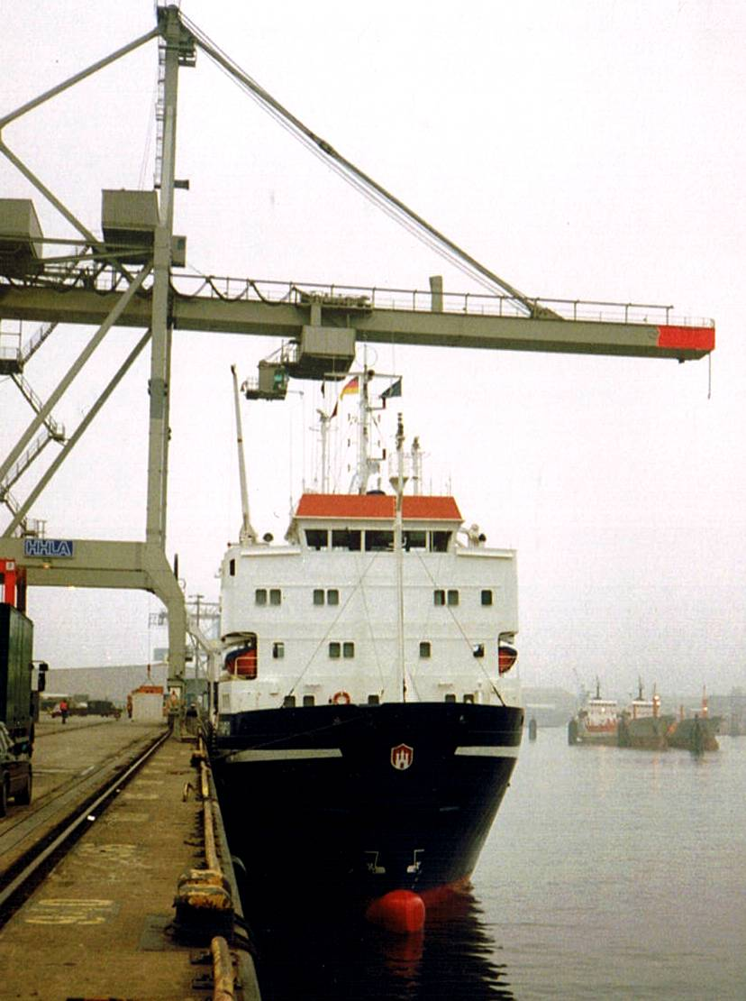 Die Alster Rapid liegt im Hamburger Hansa Hafen